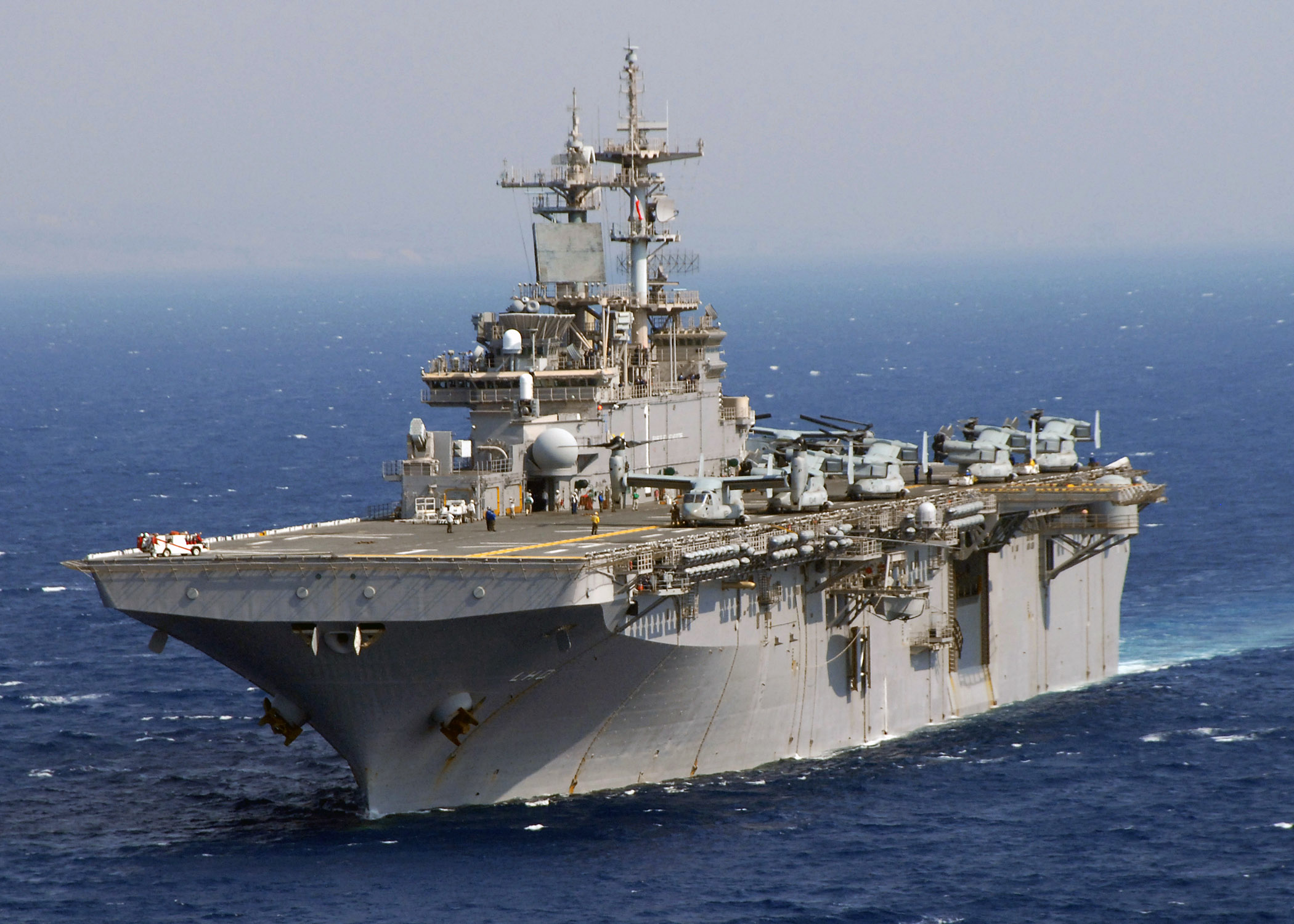 071004-N-1189B-005 GULF OF AQABA - U.S. Marine Corps MV-22 Ospreys, assigned to Marine Medium Tiltrotor Squadron (VMM) 263, Marine Aircraft Group 29, prepare for flight on the deck of the multipurpose amphibious assault ship USS Wasp (LHD 1). Wasp is on surge deployment to the Middle East carrying the Osprey to its first combat deployment.